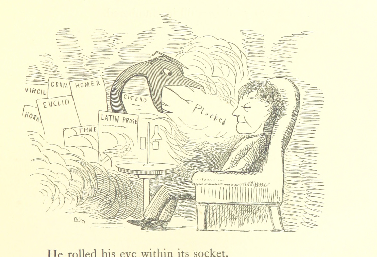 Image taken from: Title: "Lays of Modern Oxford, by Adon. Illustrated by M. E. Edwards, F. Lockwood, and the author" Contributors: EDWARDS, Mary Ellen. LOCKWOOD, Frank - Sir Shelfmark: "British Library HMNTS 11650.g.9." Page: 65. Place of Publishing: London. Date of Publishing: 1874. Publisher: Chapman & Hall. Issuance: monographic. Identifier: 000021119 Explore: Find this item in the British Library catalogue, 'Explore'. Download the PDF for this book (volume: 0) Image found on book scan 65 (NB not necessarily a page number) Download the OCR-derived text for this volume: (plain text) or (json) Click here to see all the illustrations in this book and click here to browse other illustrations published in books in the same year. Order a higher quality version from here.